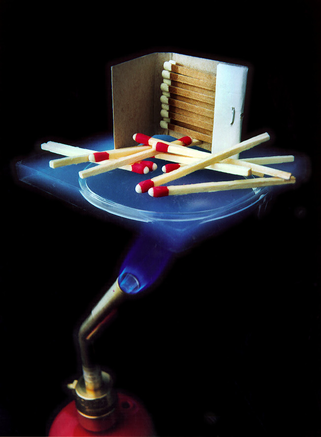 Matches on aerogel, with a flame underneath. A demonstration of aerogel's insulation properties.